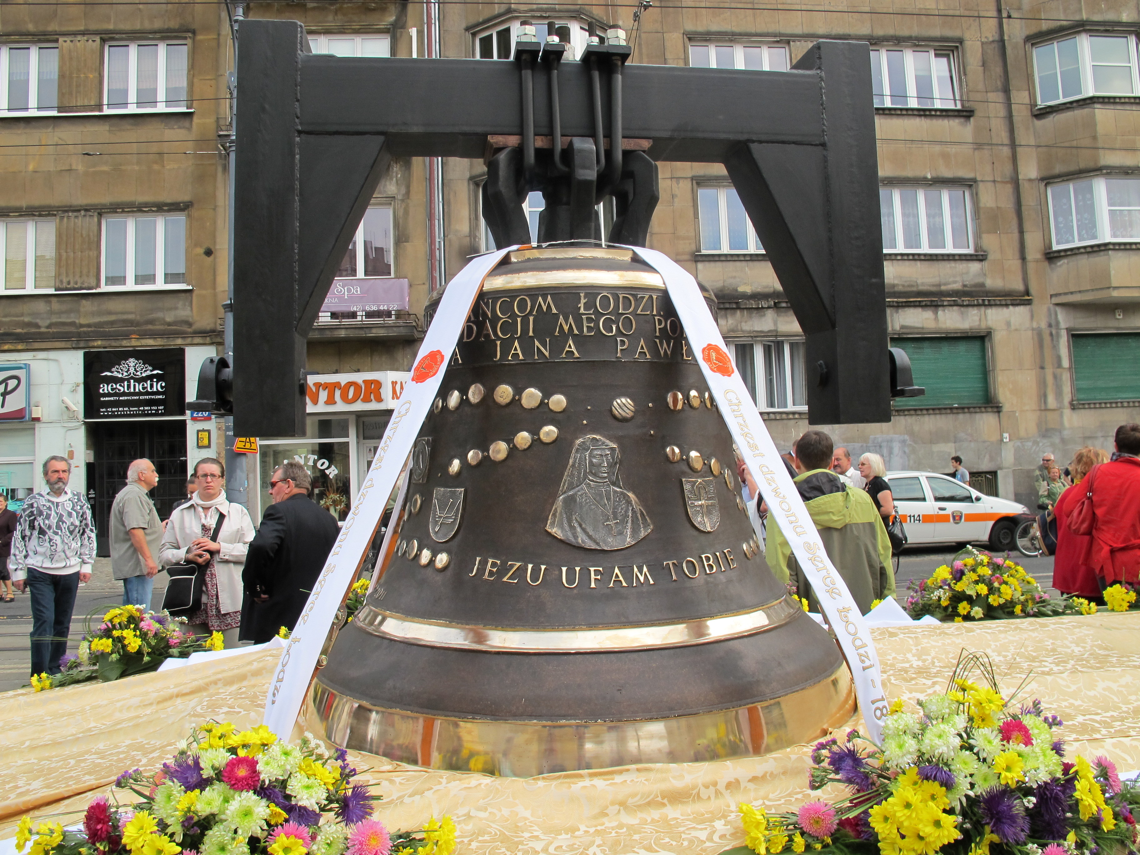 The Heart of Lodz church bell cast in Ludwisarnia Felczyńskich in Taciszów, Poland